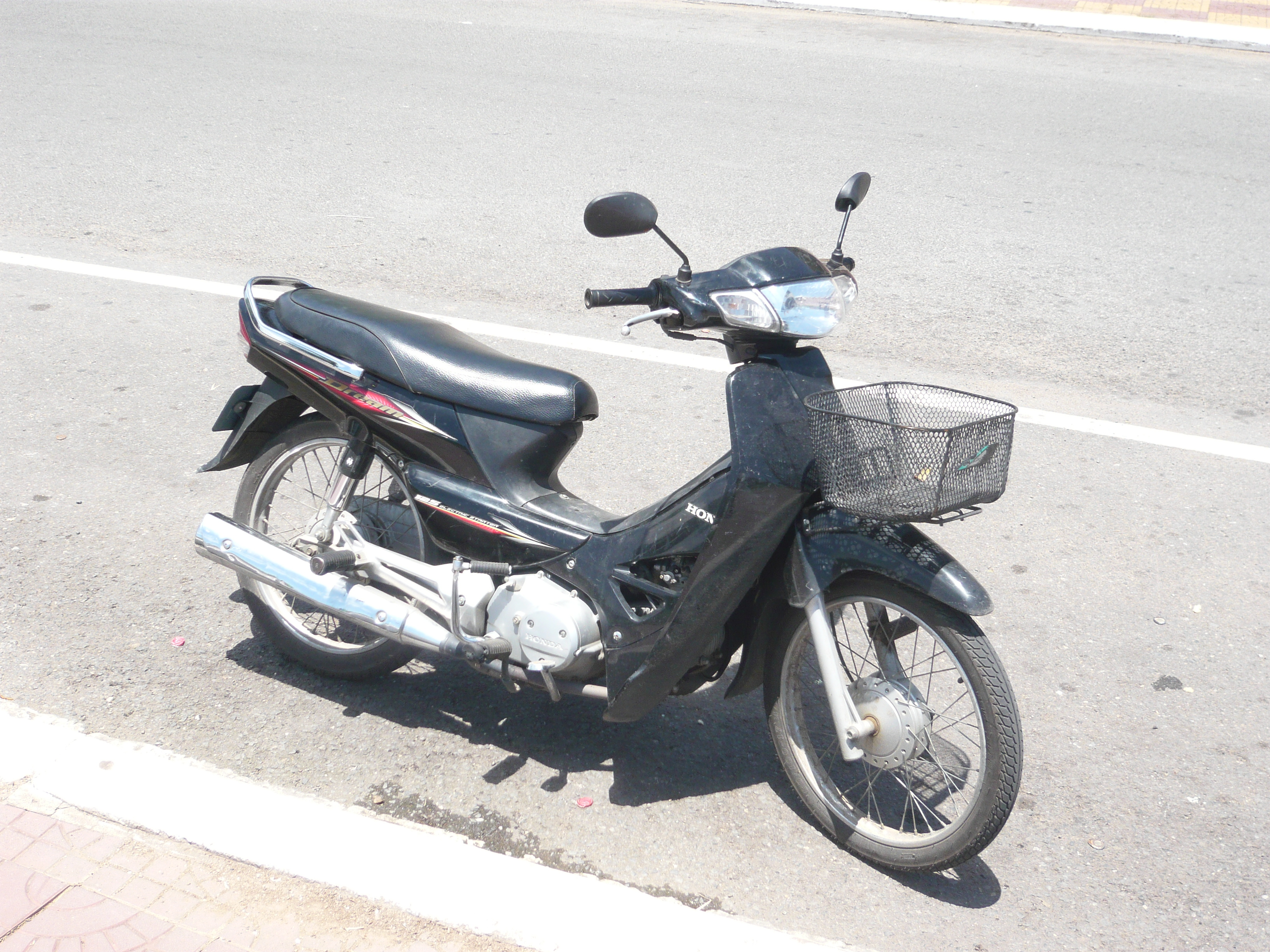 Honda Dream 125cc, version of 2006, manufactured in Thailand. Phnom Penh, Cambodia. July 2011.